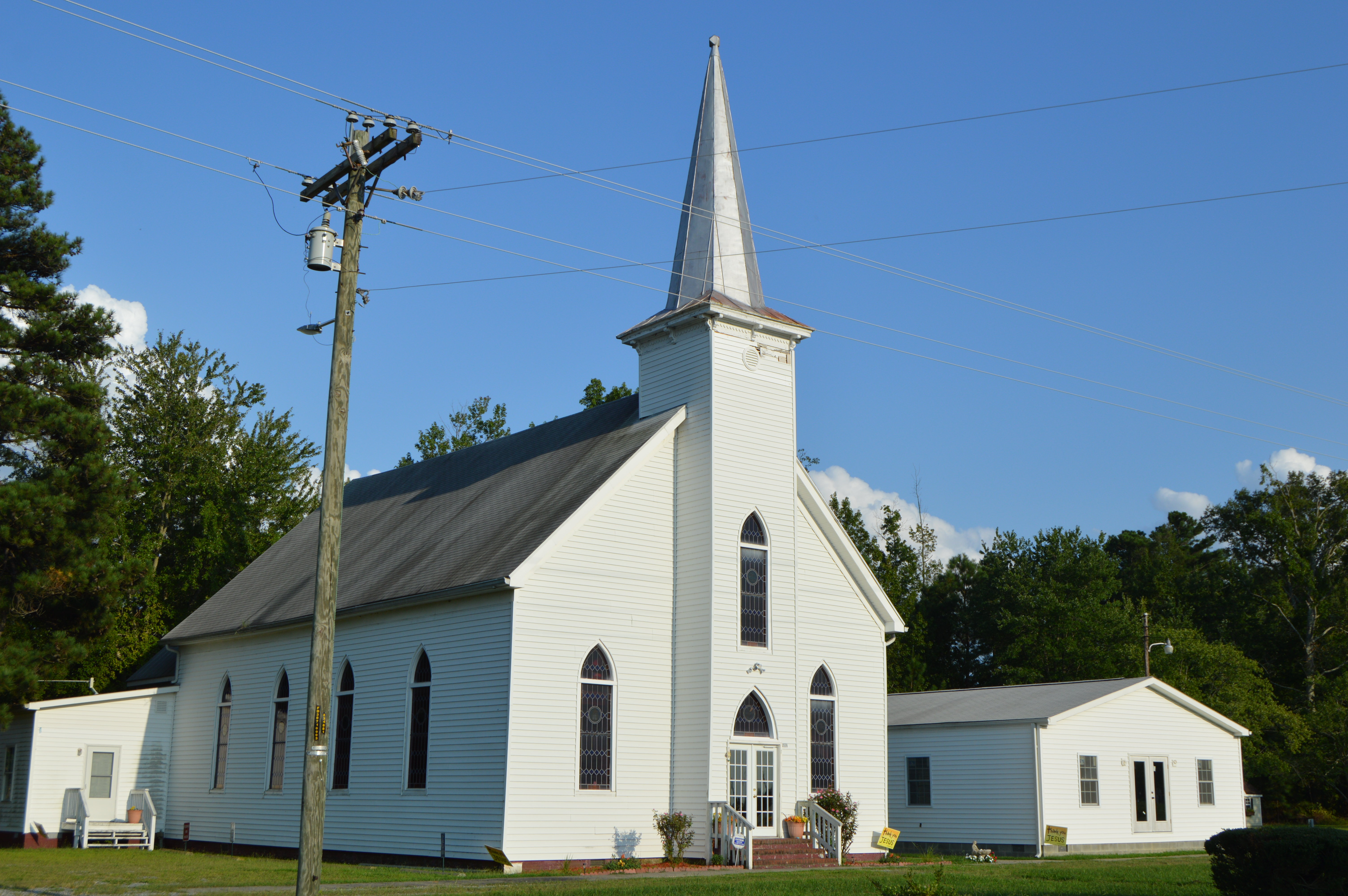 Front and northern side of Hartswell Baptist Church, located on State Route 354 at the Slabtown Road intersection, in the vicinity of Ottoman, in Lancaster County, Virginia, United States.